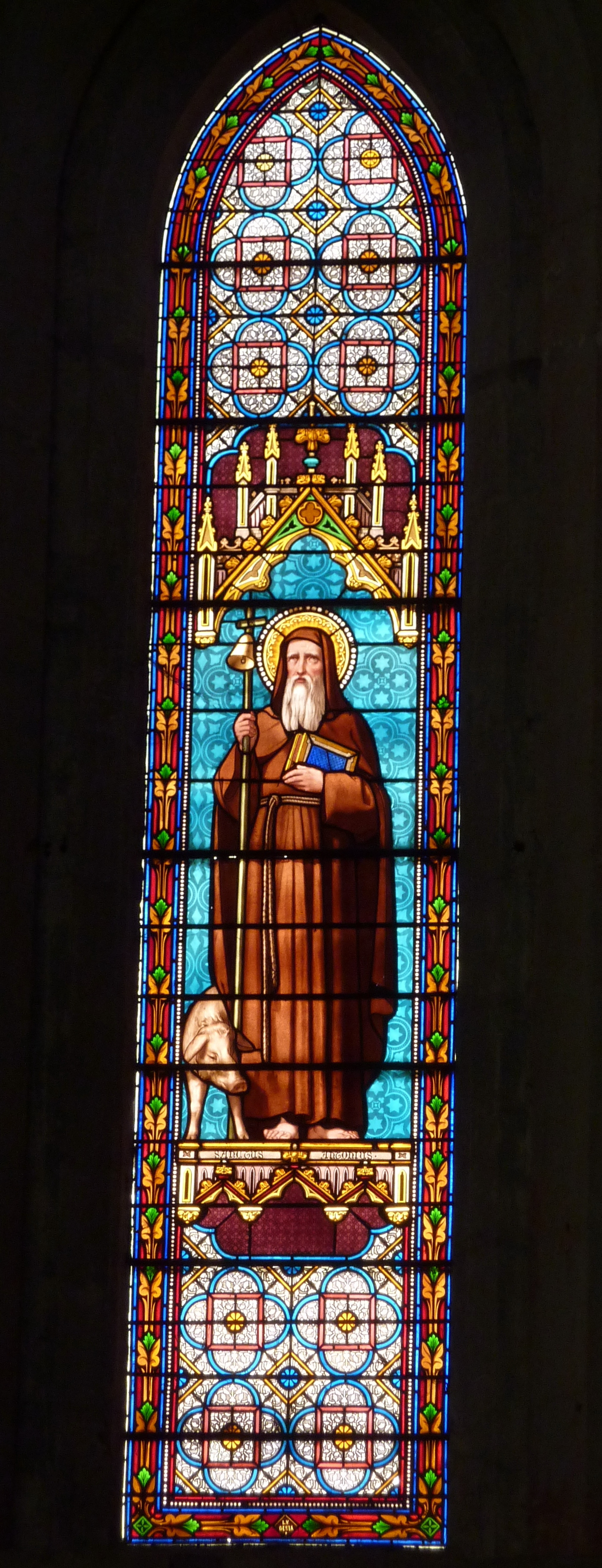 Stained glass windows of Abbatial church of Saint-Antoine-l'Abbaye. Saint Anthony the Great, made by Louis-Victor Gesta.